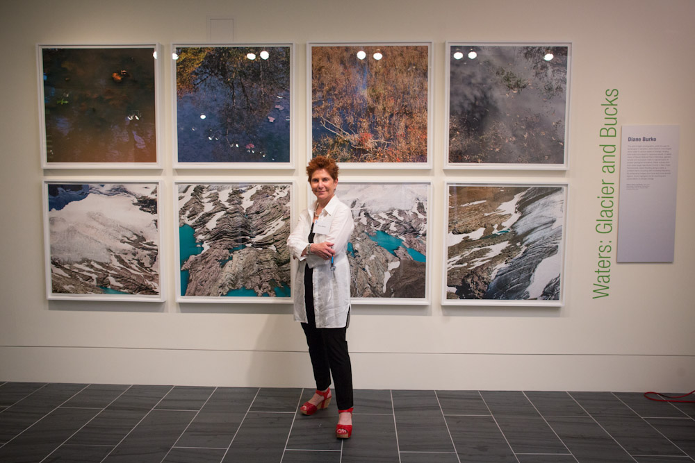 Photograph of Diane Burko, environmental artist, with her work "Waters: Glaciers and Bucks, 2007–2011", at the opening for the 2013 Sensing Change exhibit at the Chemical Heritage Foundation, Philadelphia, PA, USA, 27 June 2013.